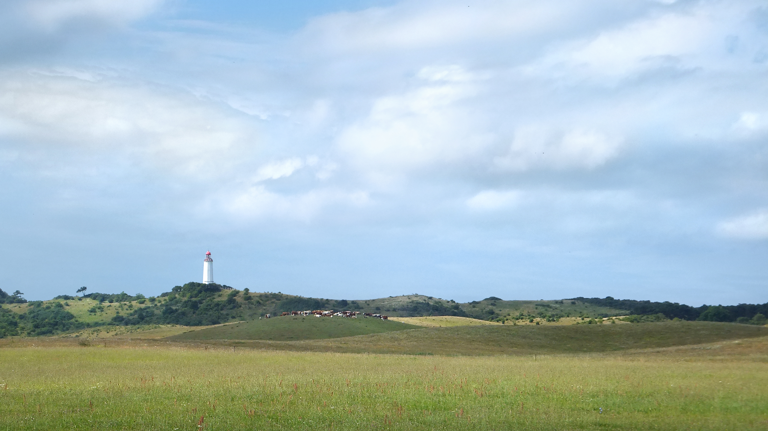 Nature reserve "Dornbusch und Schwedenhagener Ufer“, island Hiddensee, NSG N 294, Vorpommern-Rügen District, Mecklenburg-Vorpommern, Germany. View from the village Grieben to the lighthouse on the Dornbusch.